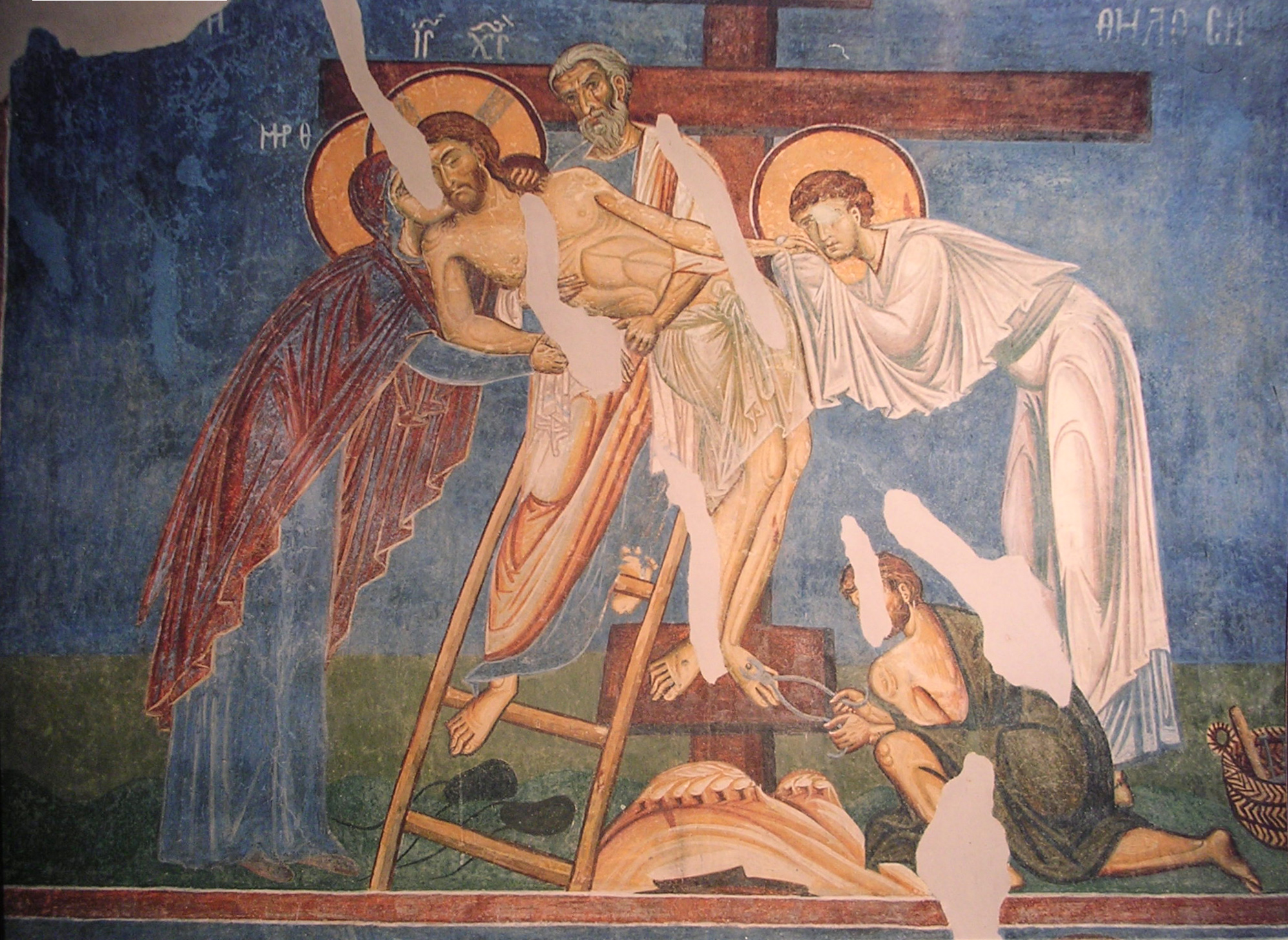 Frescos in St. Pantaleon Church in Nerezi near Skopje in Macedonia